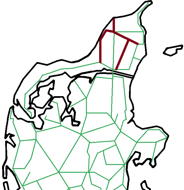 Map of railways in Northern Jutland in Denmark with the private railway network Hjørring Privatbaner in brown.